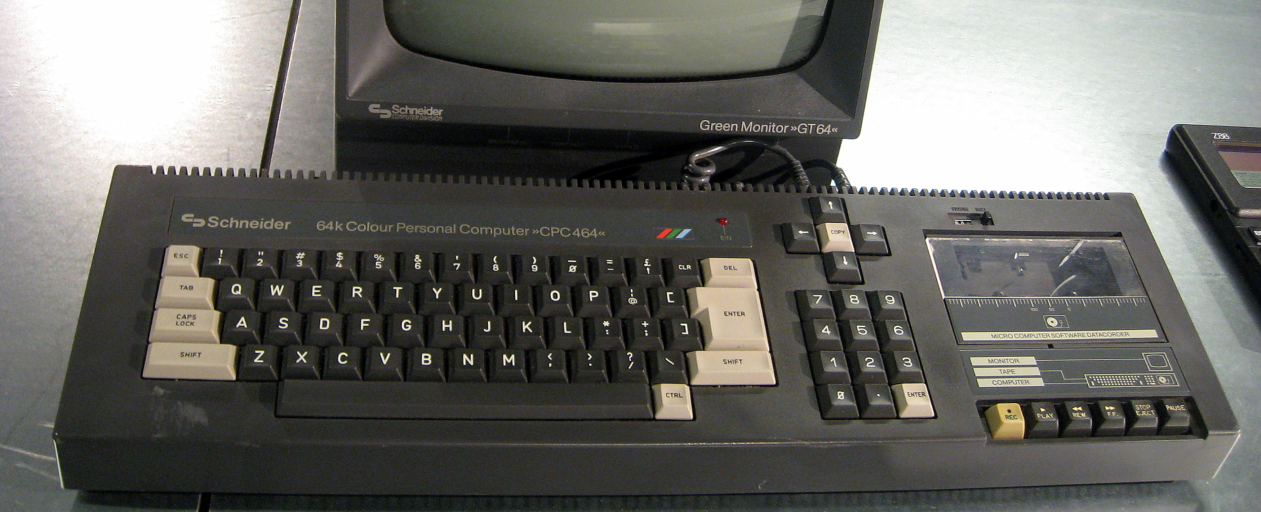 Schneider 64k Colour Personal Computer CPC 464, GT 64 green monitor.